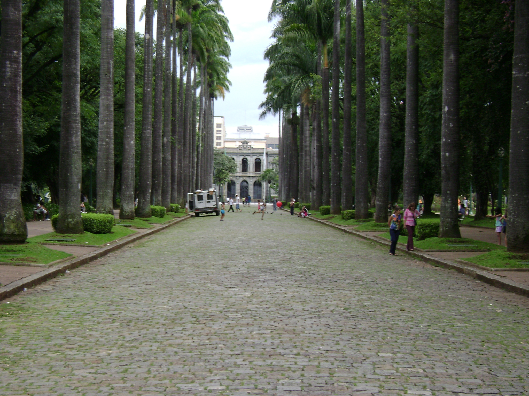 Alameda na Praça da Liberdade, Belo Horizonte, Brasil.